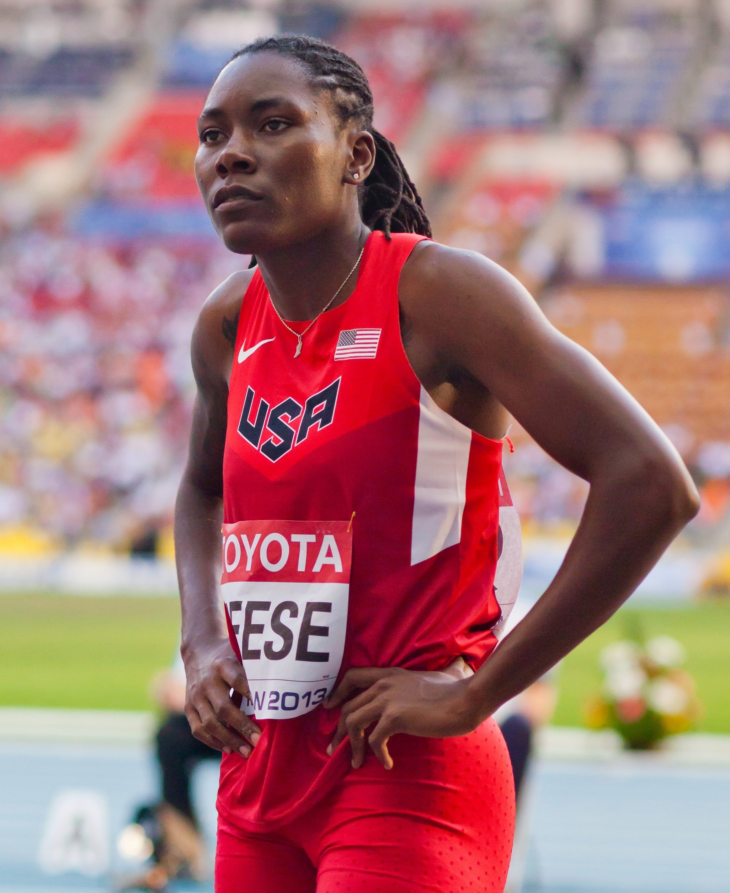 Brittney Reese during 2013 World Championships in Athletics in Moscow.